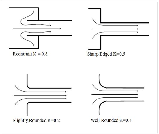 PIPE ENTRANCE FRICTION LOSS COEF